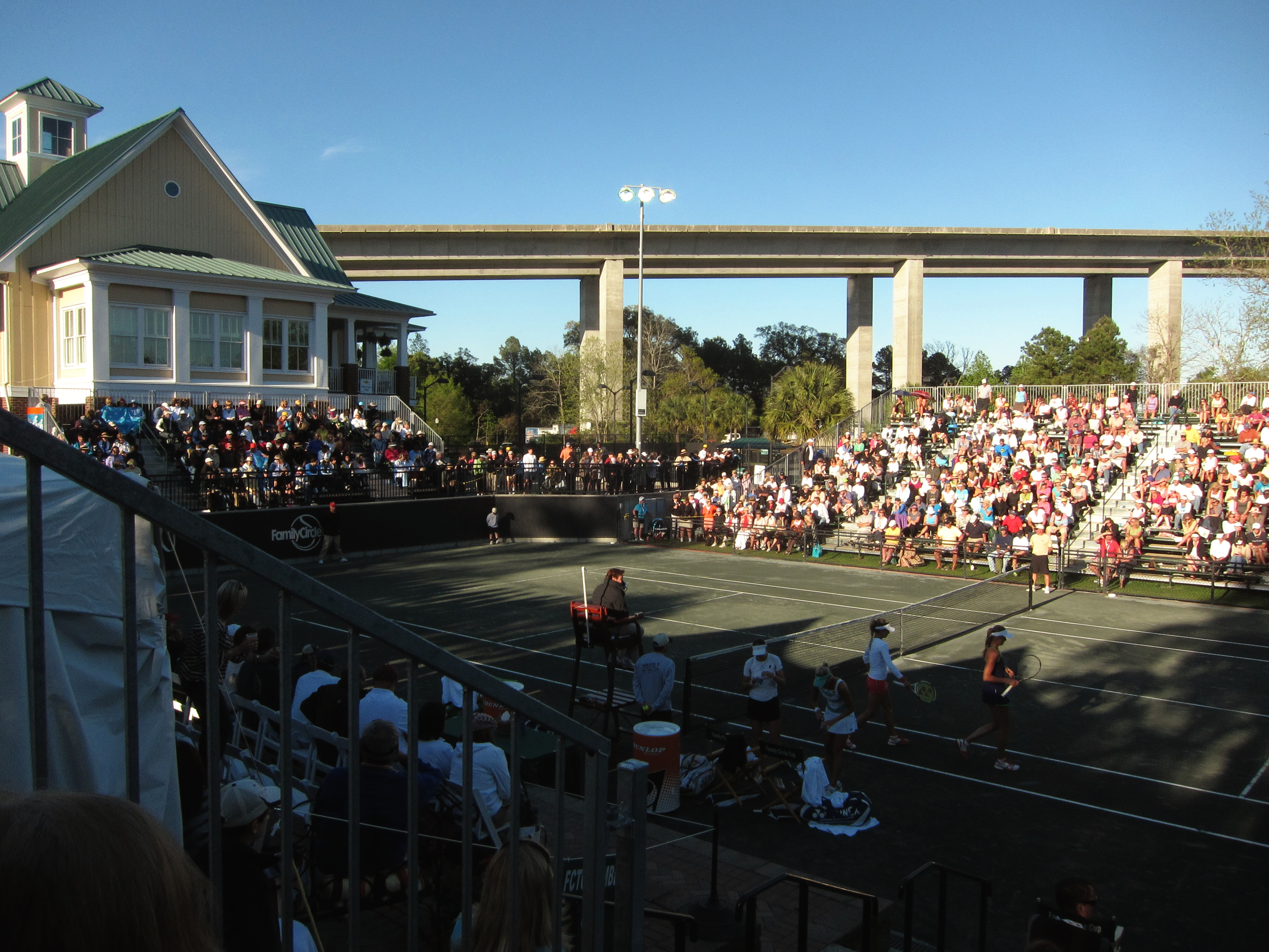 Andrea Hlaváčková and Renata Voráčová v Daniela Hantuchová and Maria Kirilenko in the first round at the 2011 Family Circle Cup. Hantuchova and Kirilenko won 6-7, 6-2, [16-14]